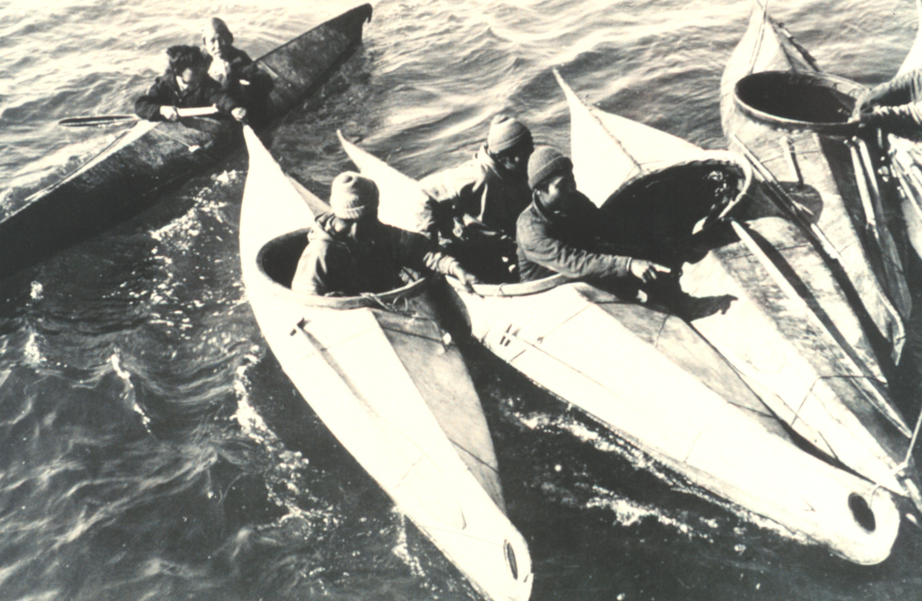 NOAA caption: Eskimos congregating in their kayaks. The kayaks are used for hunting and transportation. F&WS B-51432.